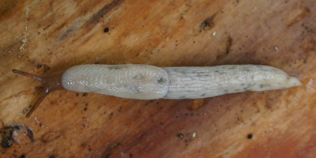 Dorsal view of Deroceras praecox (Determination confirmed by dissection.) Locality: CZ, Moravia, PR Panské louky, 7 June 2004